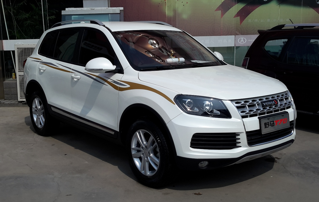 Yema T70 photographed in Xi'an, Shaanxi province, China.